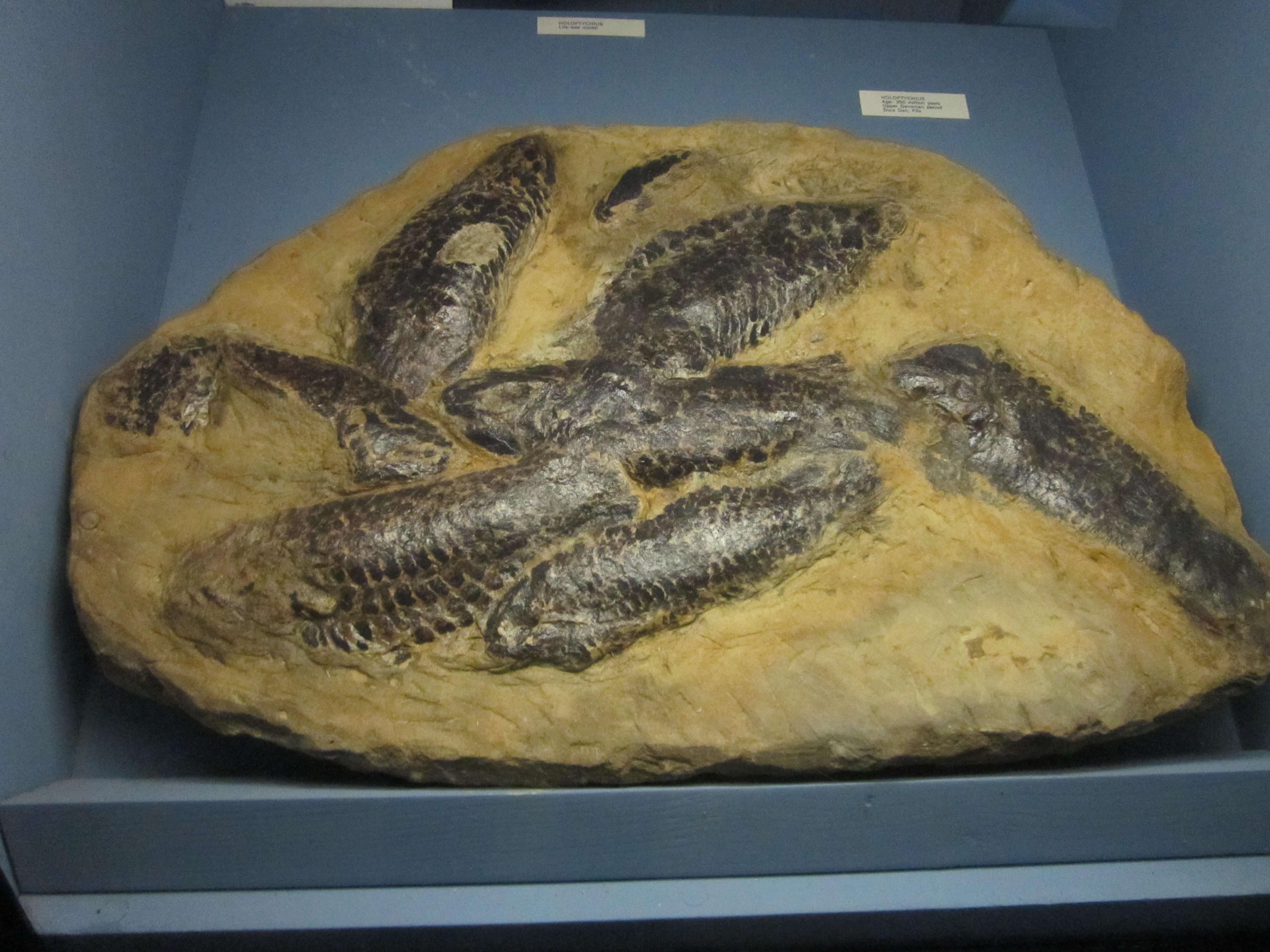 Holoptychius fossils on display at World Museum in Liverpool, England. The fossils are in rock of late Devonian age (about 350 million years old) from Dura Den in Fife, Scotland.